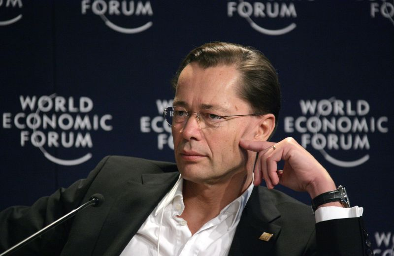 DAVOS/SWITZERLAND, 25JAN07 - Thomas Middelhoff, Chief Executive Officer, KarstadtQuelle, Germany captured during the session 'Ensuring Future European Growth' at the Annual Meeting 2007 of the World Economic Forum in Davos, Switzerland, January 25, 2007. Copyright by World Economic Forum by E.T. Studhalter